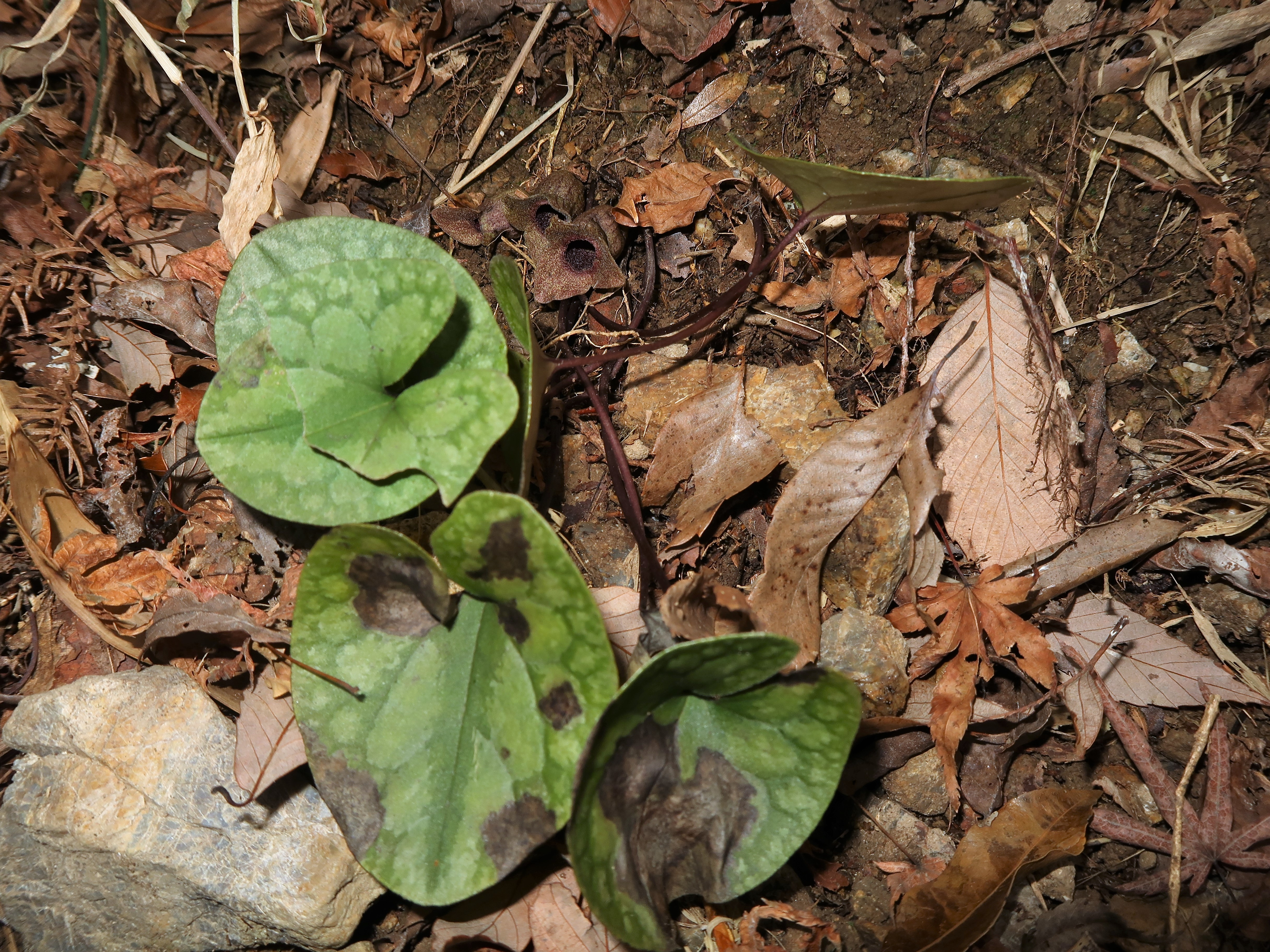 Asarum kurosawae, Toyohashi city, Aichi pref., Japan